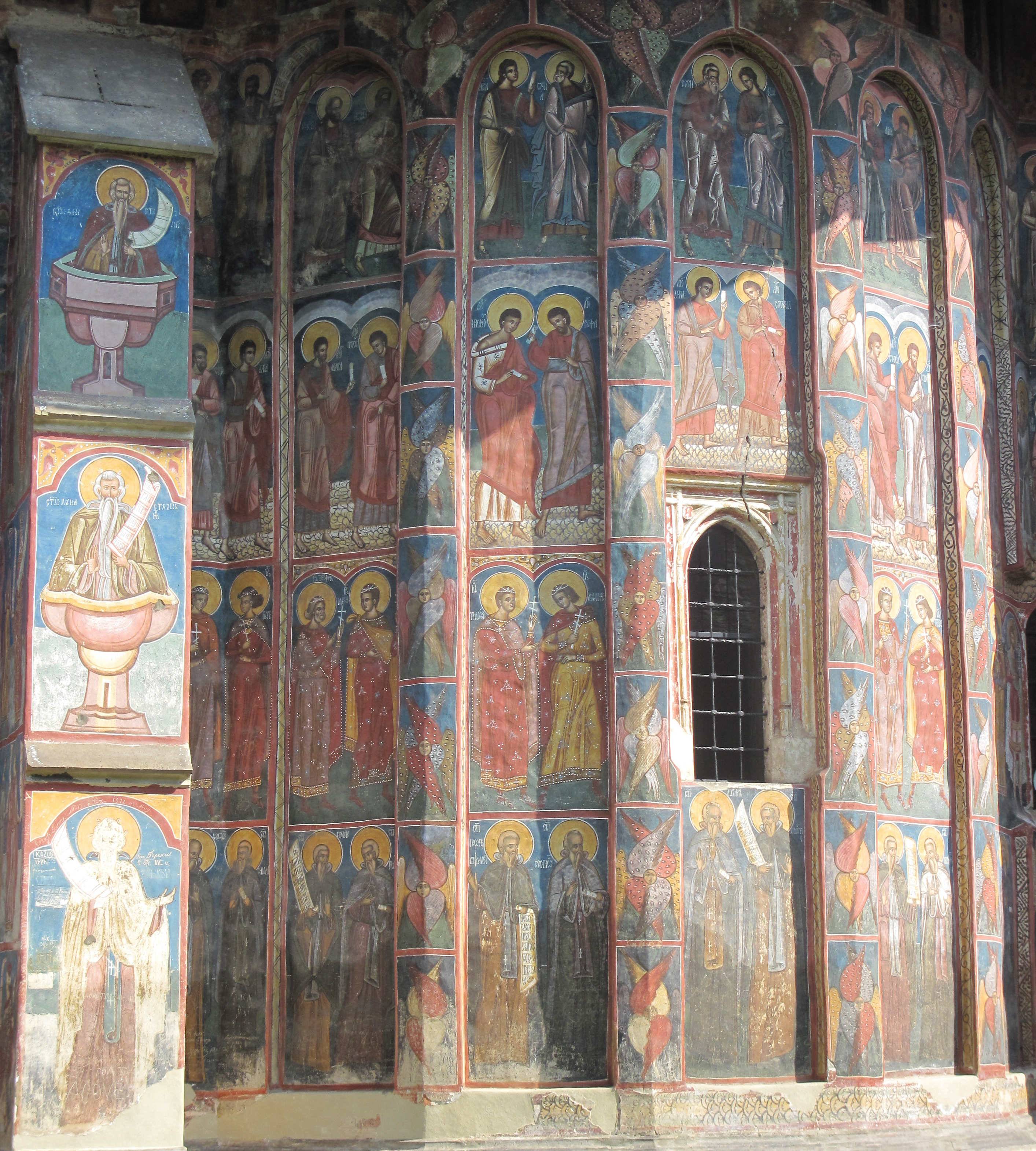 Moldoviţa Monastery, Romania. The church is one of the Painted churches of northern Moldavia listed in UNESCO's list of World Heritage sites.